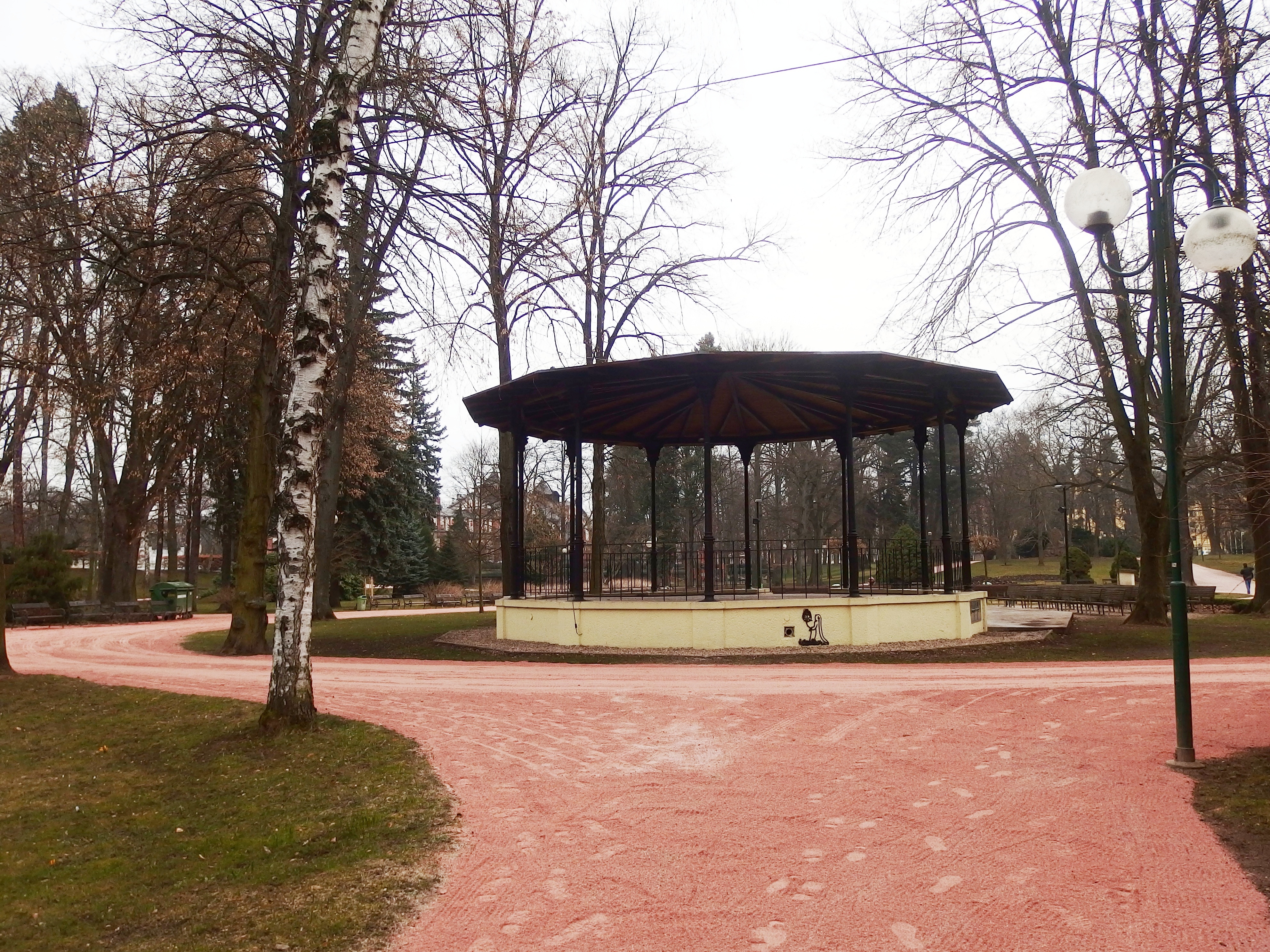 Hradec Králové, Czech Republic.